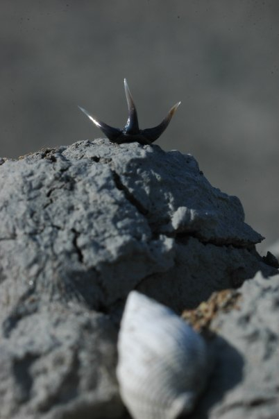 Tooth of Chlamydoselachus lawleyi